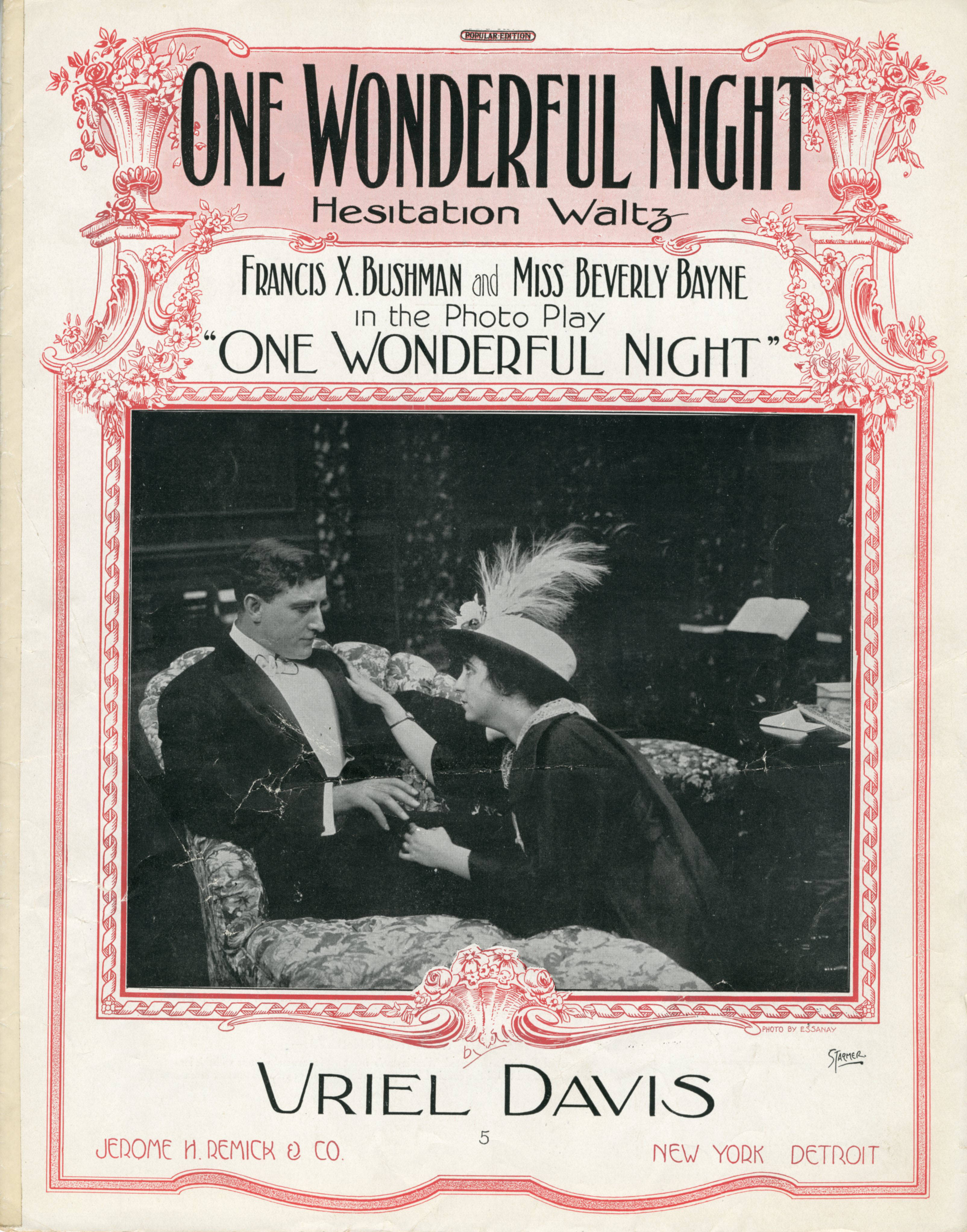 Sheet music cover: "One Wonderful Night" 1 vocal score (5 p.) ; 35 cm. Illustrated cover with images of Francis X. Bushman and Beverly Bayne / Starmer. One Wonderful Night (Motion picture : 1914)